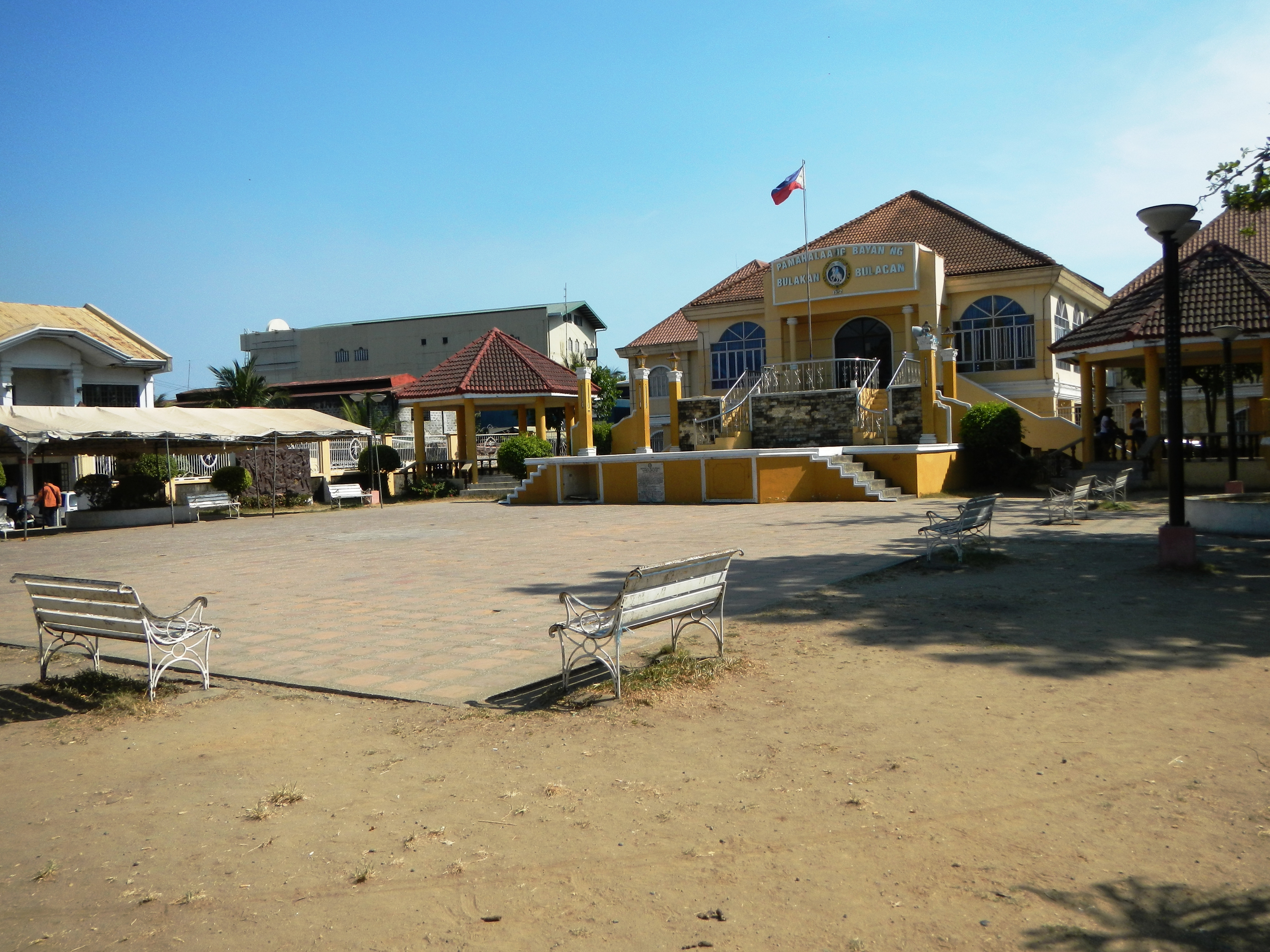 Bulacan, Bulacan (the Gregorio H. Del Pilar Monument in Bulacan, Bulacan, Town Proper, Centro del Pilar, in Calle Camino: Barangay Santa Ana, Barangay Bagumbayan, the center is the Bulakan Church in front of the Bulacan Municipal Hall Complex Compound's Sangguniang Bayan Office, Office of the Mayor, Vice-Mayor, the 14 de Noviembrer Araw ng Kabataan, Araw ni Gregorio H. Del Pilar Marker and Monument, Plaza ng Bayan ng Bulakan or Bulacan, Bulacan Plaza, including the Historical markers, Sculptures in stone, including the Halls of Justice, Courts along the Malolos-Obando-Bulacan, Bulacan Provincial Road gateway to Obando, Bulacan).